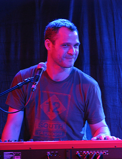 Steve Paix of Tarmac Adams on keyboards at The Saint, Asbury Park, NJ, 05232013. Photo by LHCollins